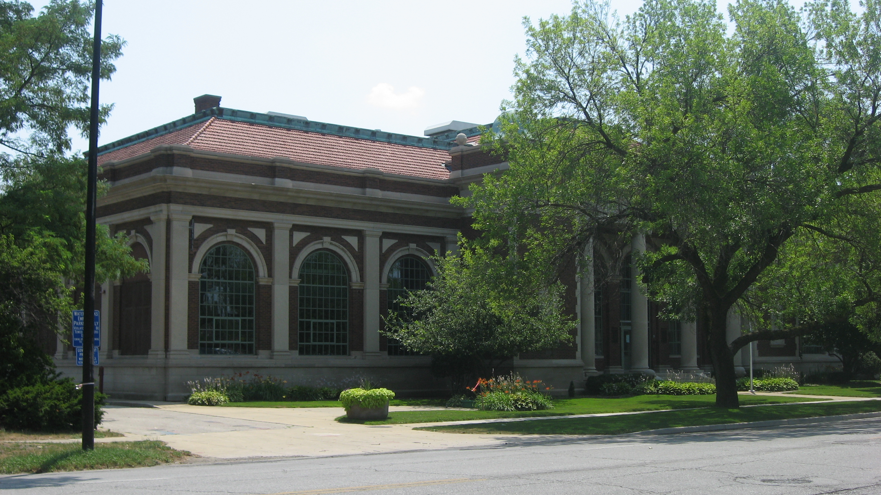 Front of the North Pumping Station, located in Leeper Park at 830 N. Michigan Street in South Bend, Indiana, United States. Built in 1912, it is listed on the National Register of Historic Places, and it is part of the Register-listed historic district that comprises the park.